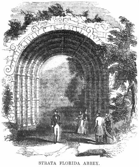 Strata Florida Abbey - Project Gutenberg eBook 11921 TitleThe Illustrated London Reading Book LanguageEnglish EText-No.11921 from from Captioned As {}